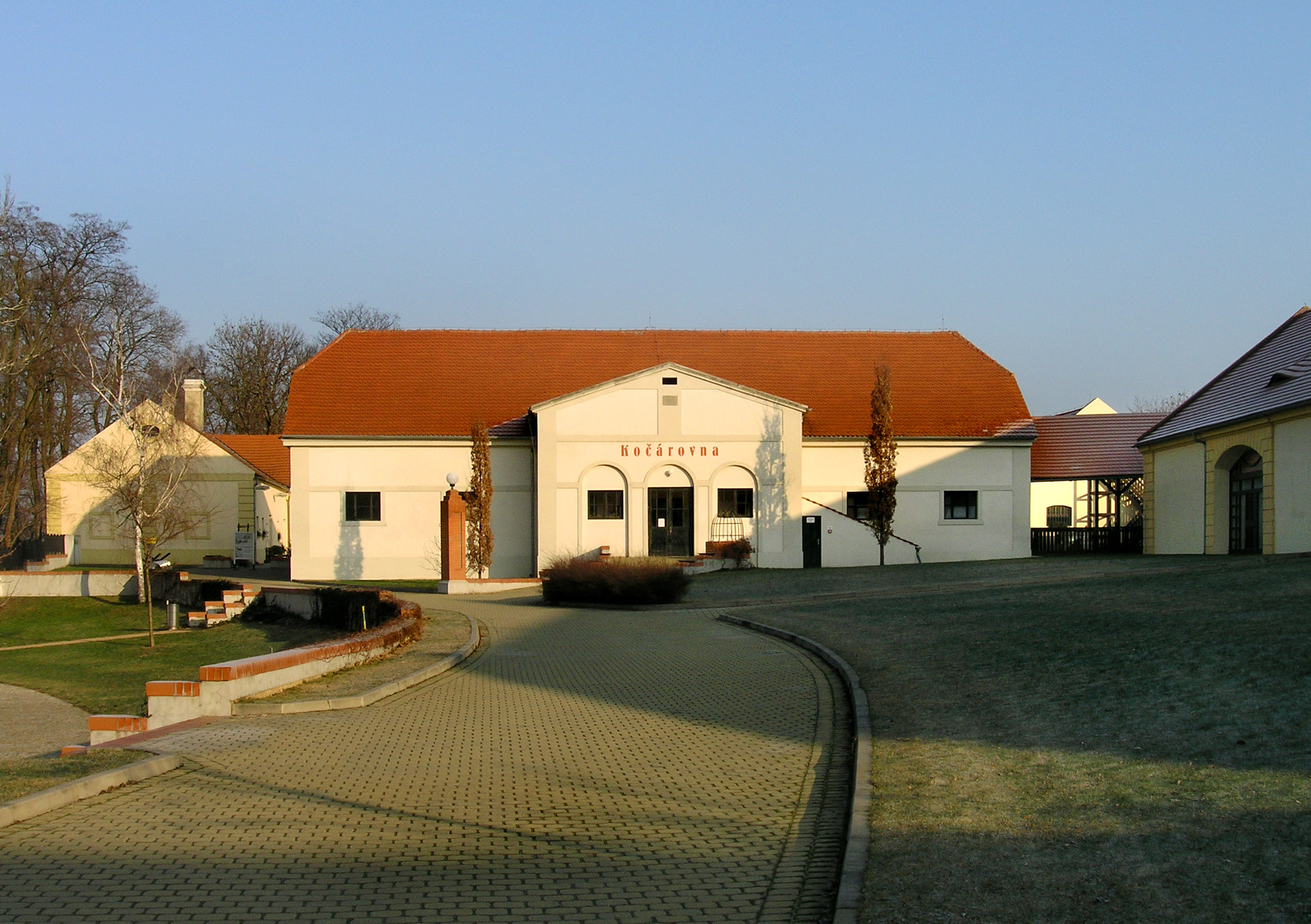 Ctěnice castle in Vinoř, Prague